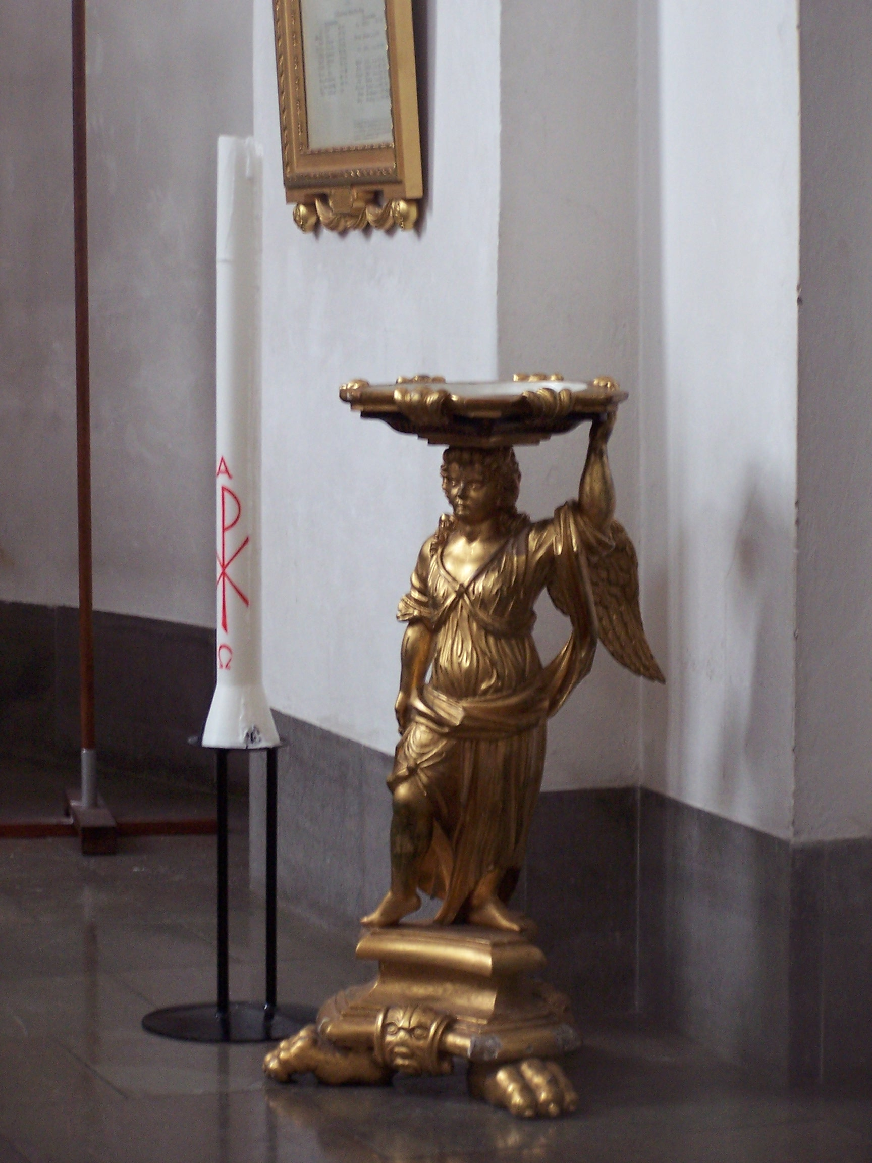 Baptismal font in Fredrikskyrkan (Fredrik's church), Karlskrona